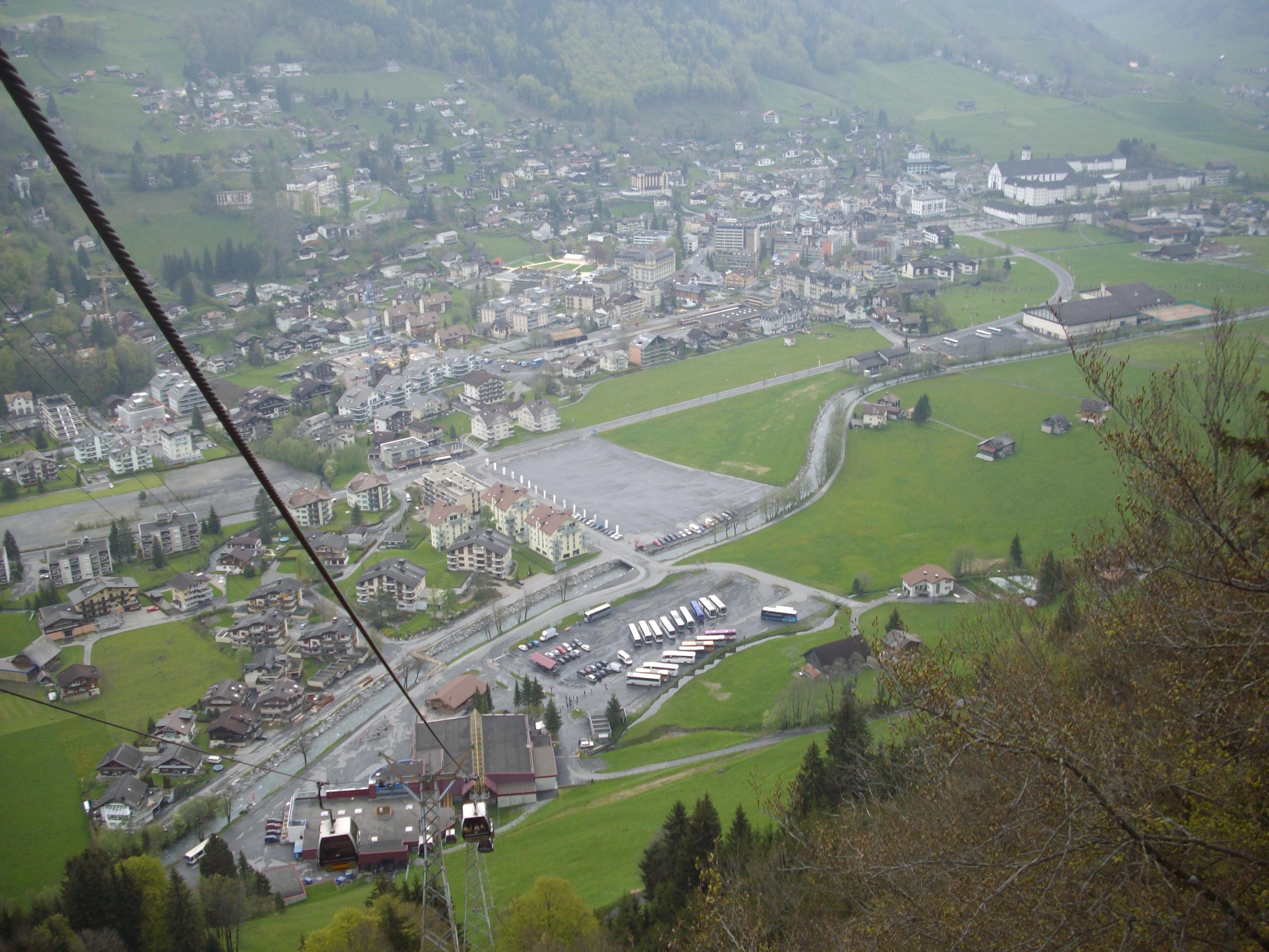 A "Birds Eye View" of Engelberg from the cable-car while descending from Mount Titlis.